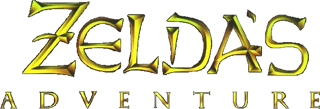 Logotype of Zelda's Adventure.